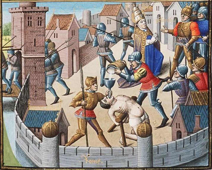 Augustine, La Cité de Dieu (Vol. I). Translation from the Latin by Raoul de Presles: Pope Leo the Great persuades Genseric, prince of Vandals, to abstain from sacking Rome (2nd of 2 images). Place of origin, date: Paris, Maïtre François (illuminator); c. 1475; 1478-1480 Material: Vellum, ff. 467, 440x300 (270x185) mm, 46 lines, littera hybrida, Binding: 18th-century brown leather (c. 1769) Decoration: 11 two-column miniatures (257/204x190/177 mm); 277 column miniatures (c. 120x80 mm); 11 illustrations in the margin (coats of arms); decorated initials with border decoration Provenance: made for Jacques d'Armagnac, duke of Nemours (1433-1477) and after his capture continued for Philippe de Commines (1447-1511), lord of Argenton (coats of arms in margin and on edge). Purchased in 1751 at the sale of J.-A. Crozat de Tugny (1696-1751) at Thiboust, Paris,by L.-J. Gaignat of Paris; purchased in 1769 at the Gaignat sale at G.F. De Bure le Jeune, Paris (cat. 1 Febr., no. 242) by Gerard Meerman (1722-1771) of Rotterdam, later The Hague; by descent to his son Johan Meerman (1753-1815); acquired between 1816 and 1824 by Willem H.J vanWestreenen van Tiellandt (1783-1848) of The Hague; by legacy to the kingdom of the Netherlands Annotation: Vol. II now: Nantes, BM, fr. 8